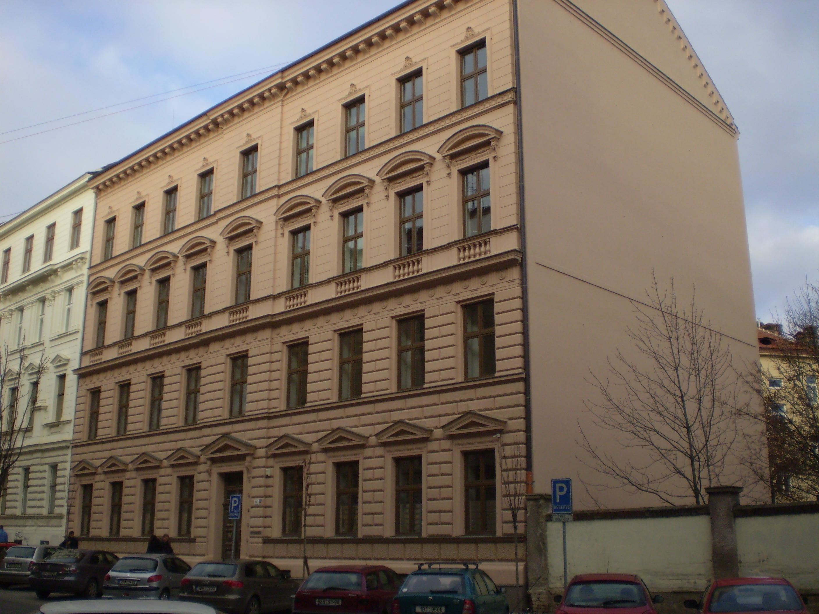 Building J, Faculty of Arts, Masaryk University, Brno, South Bohemian Region, Czech republic